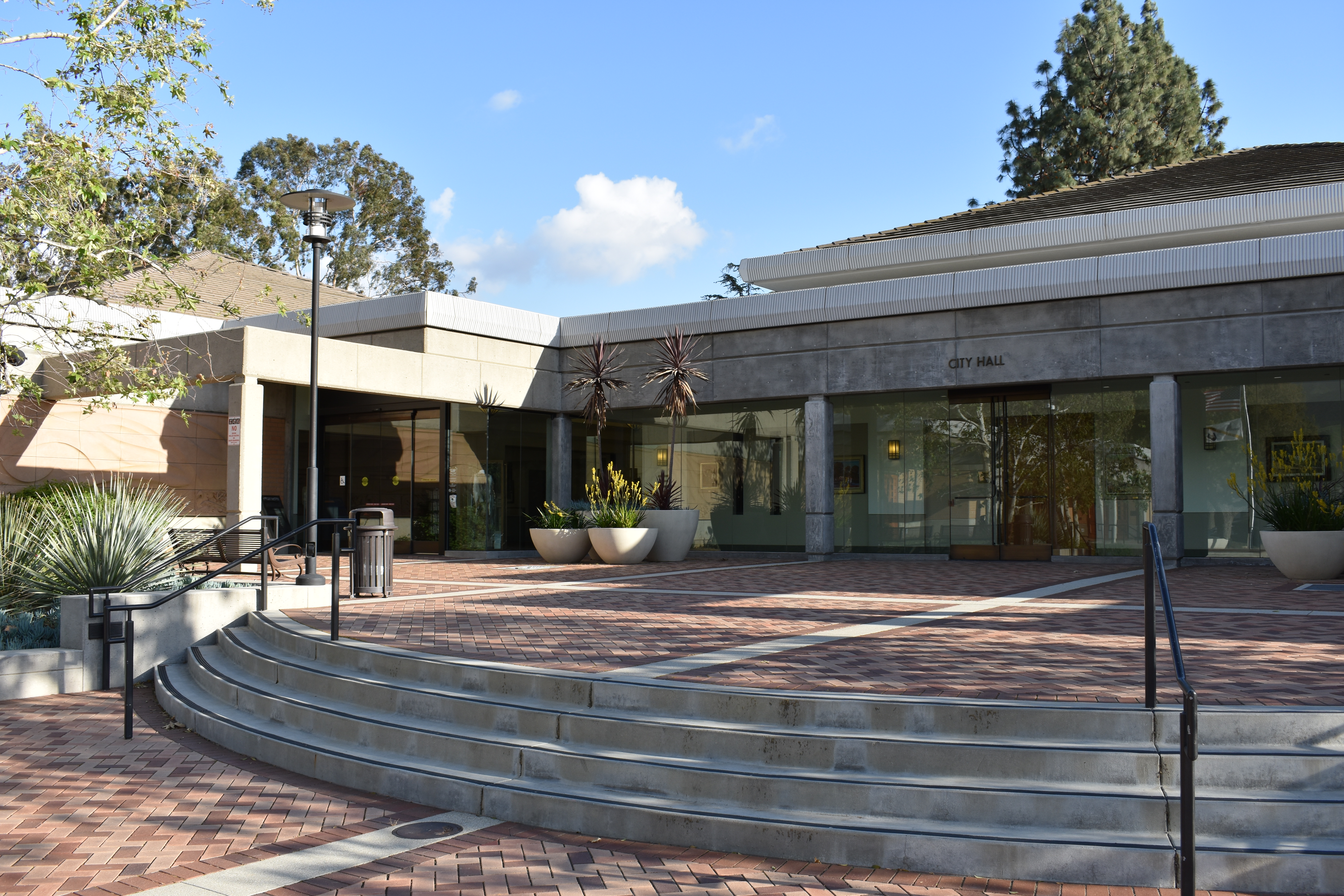 Photograph of the city hall of San Dimas, California. Taken on March 22nd, 2017, in the building's northwestern plaza.